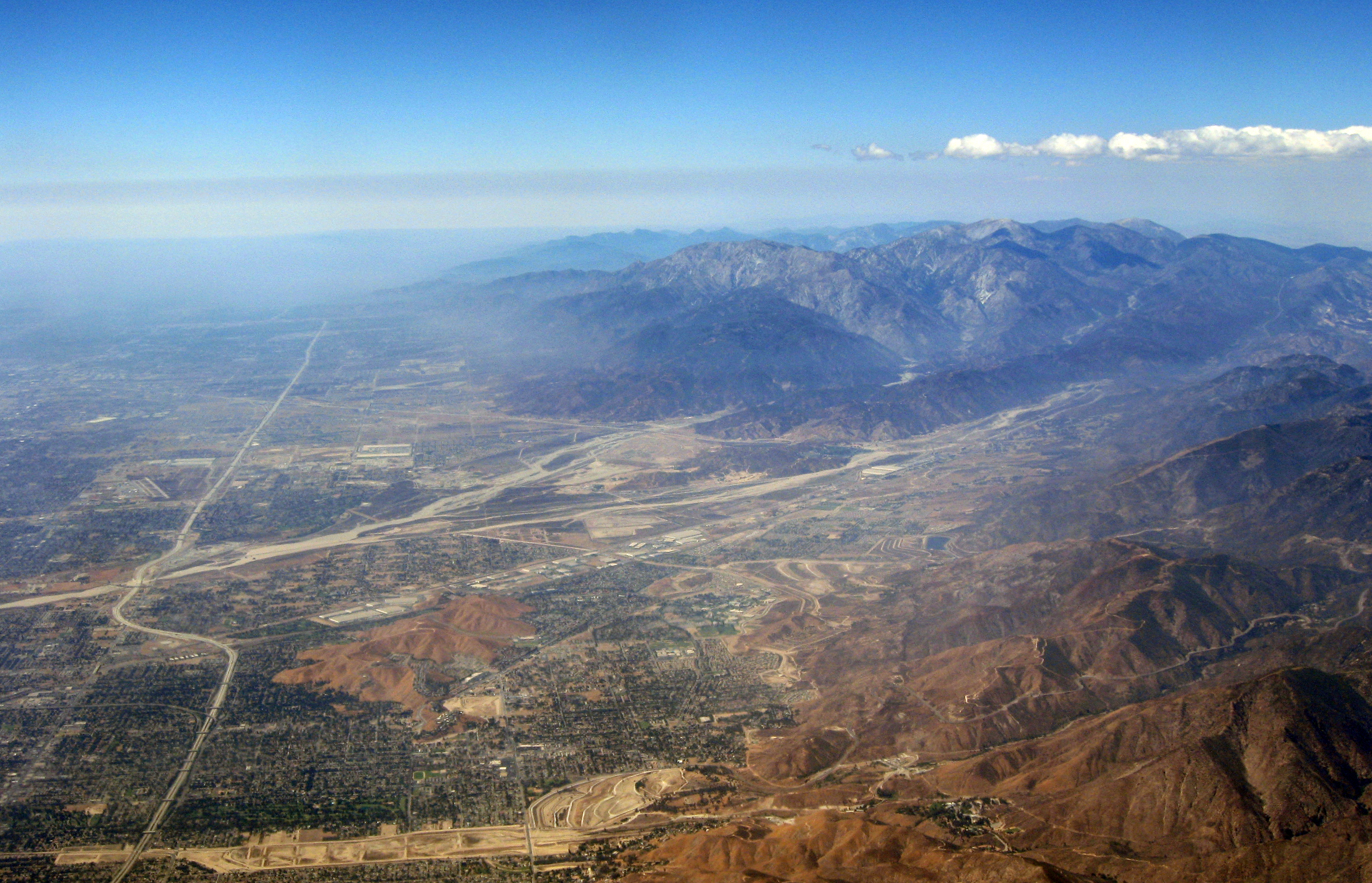 The Inland Empire, Southern California. In the foreground a burned section of the San Bernardino Mountains. The LA basin to the left, with the city ofin the foreground. The San Gabriel Mountains are under those few clouds. The Foothill Expressway (I-215) runs toward the horizon, while I-5 runs through the Cajon Pass to the right, or north.